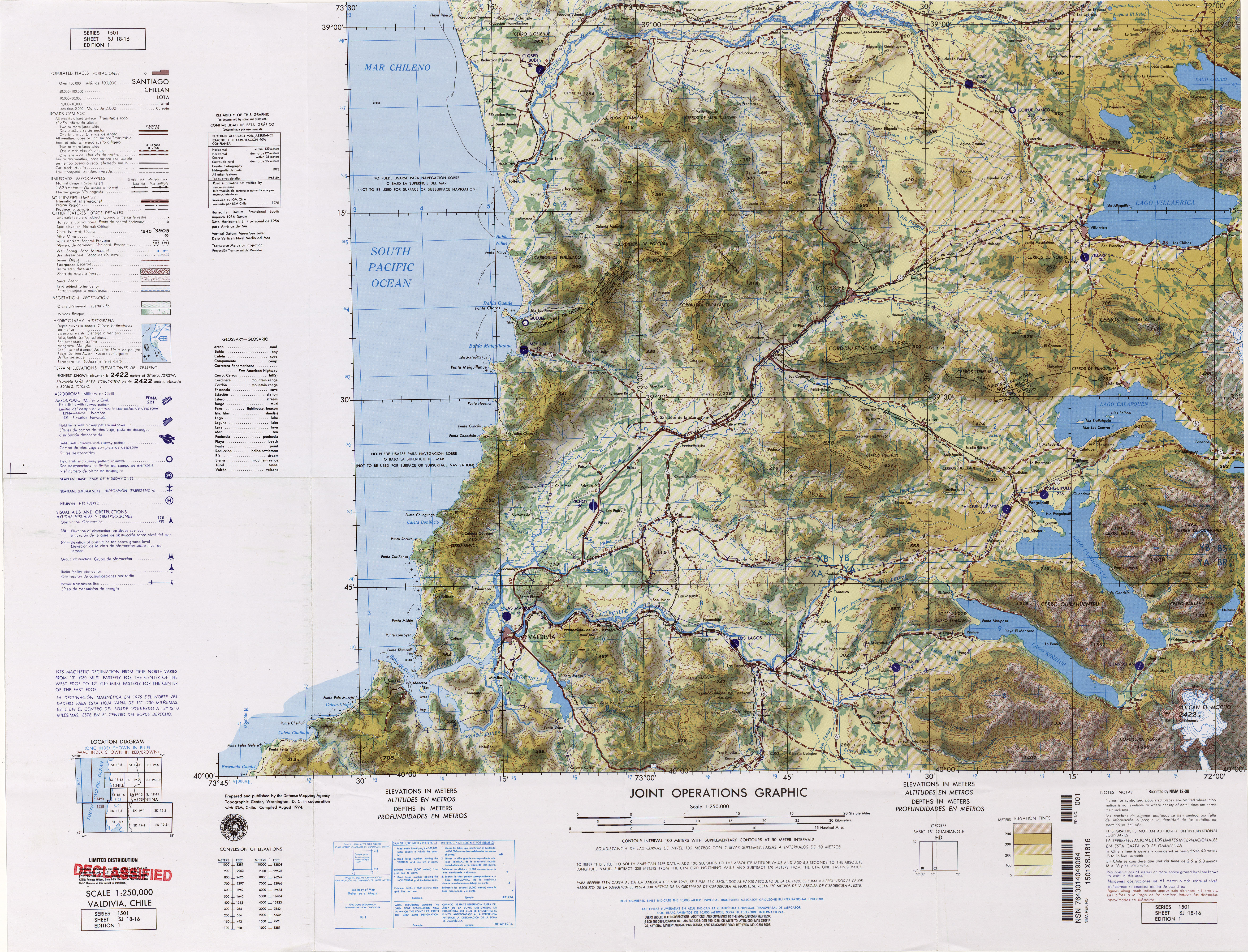 Valdivia, Loncoche, Region de los Lagos